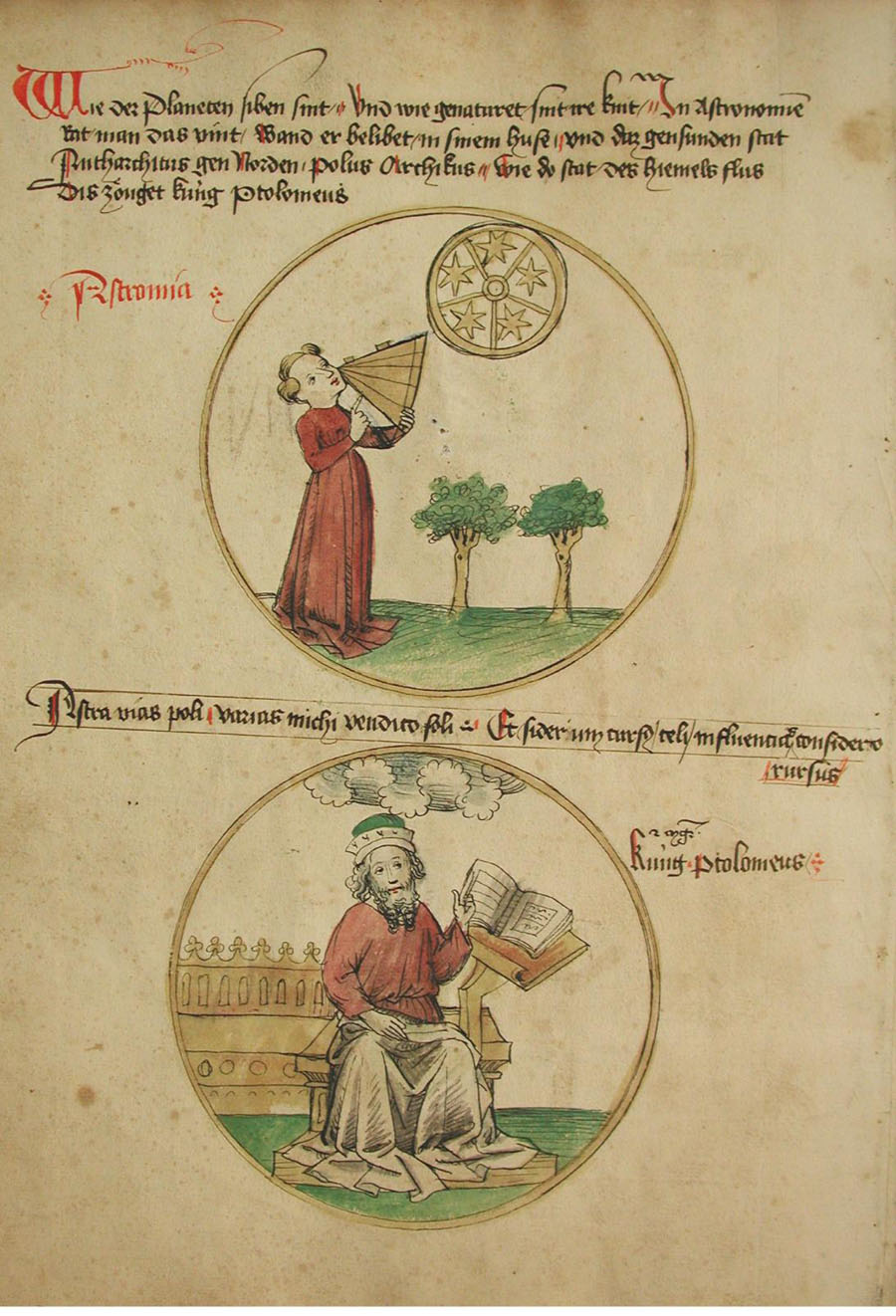 The Seven liberal arts. Astronomy and Ptolemaeus